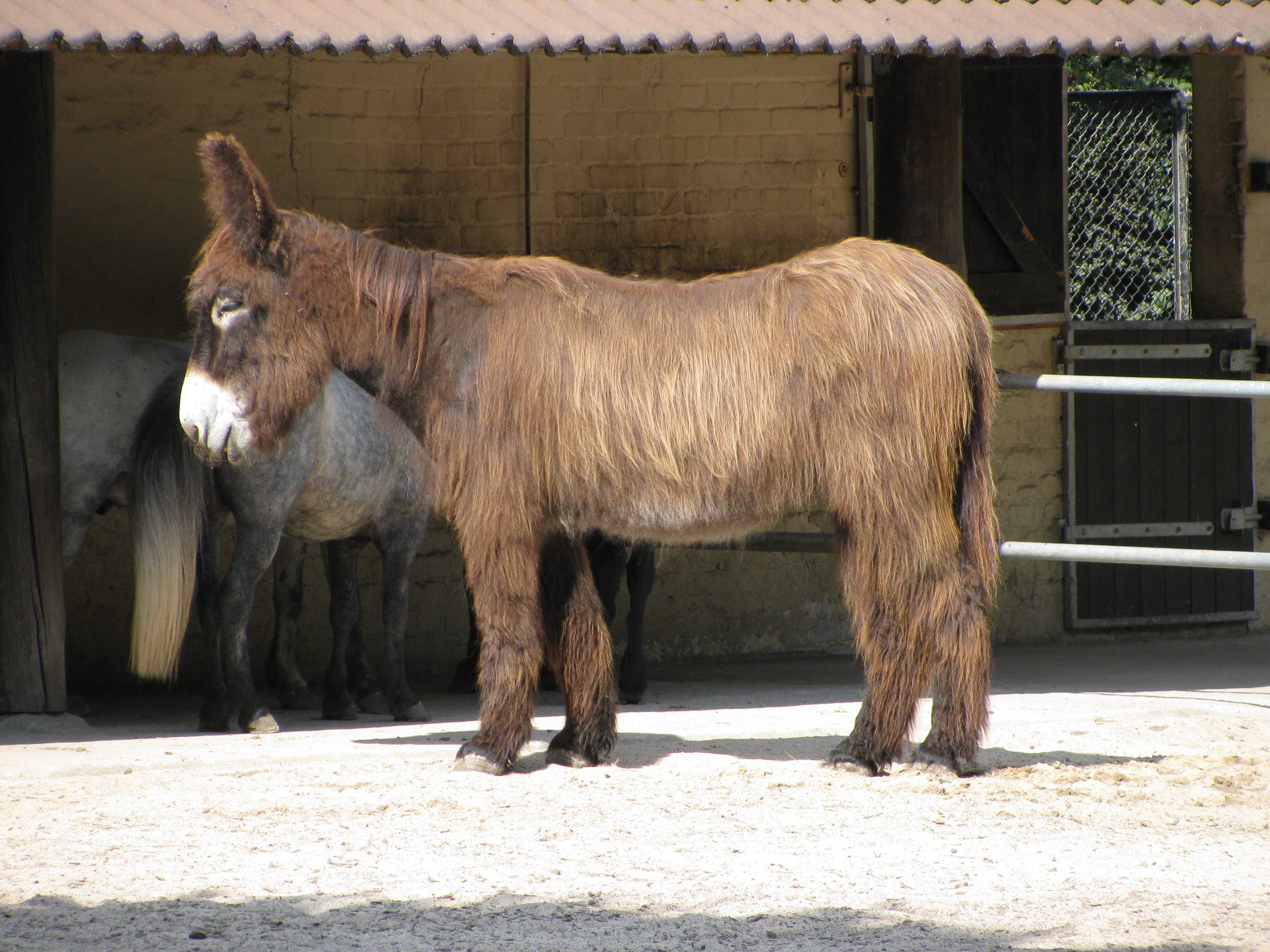 portraited at the Tierpark Hagenbeck zoo in Hamburg, Germany